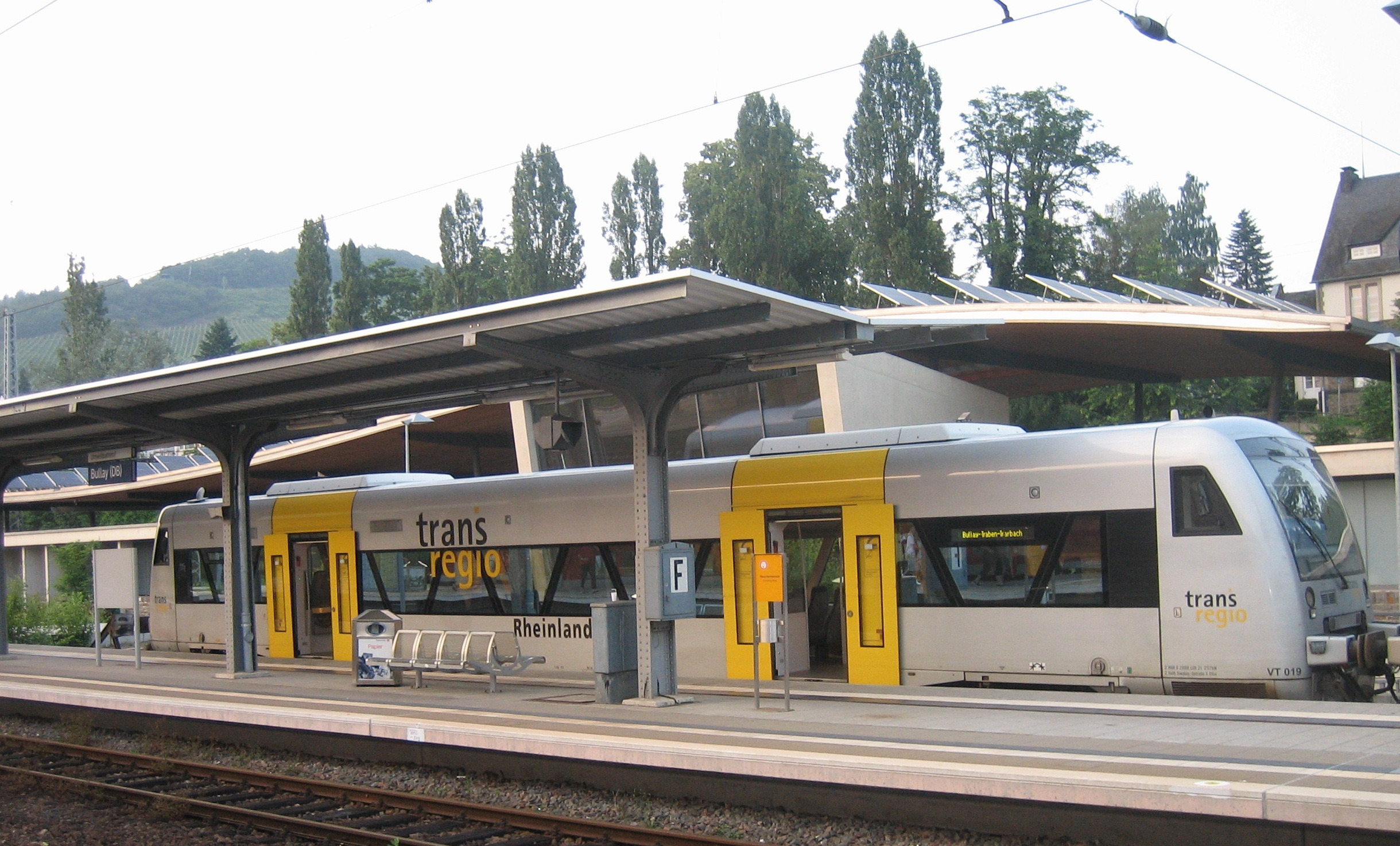 Station of Bullay/Mosel, Germany, with TransRegio train to Traben-Trarbach